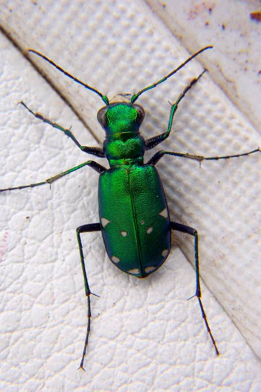 jpeg image: low-res cropped copy Six-spotted Green Tiger Beetle Order: Coleoptera / Family: Carabidae (ground beetles) Subfamily: Cicindelidae (tiger beetles) Species: Cicindela sexguttata